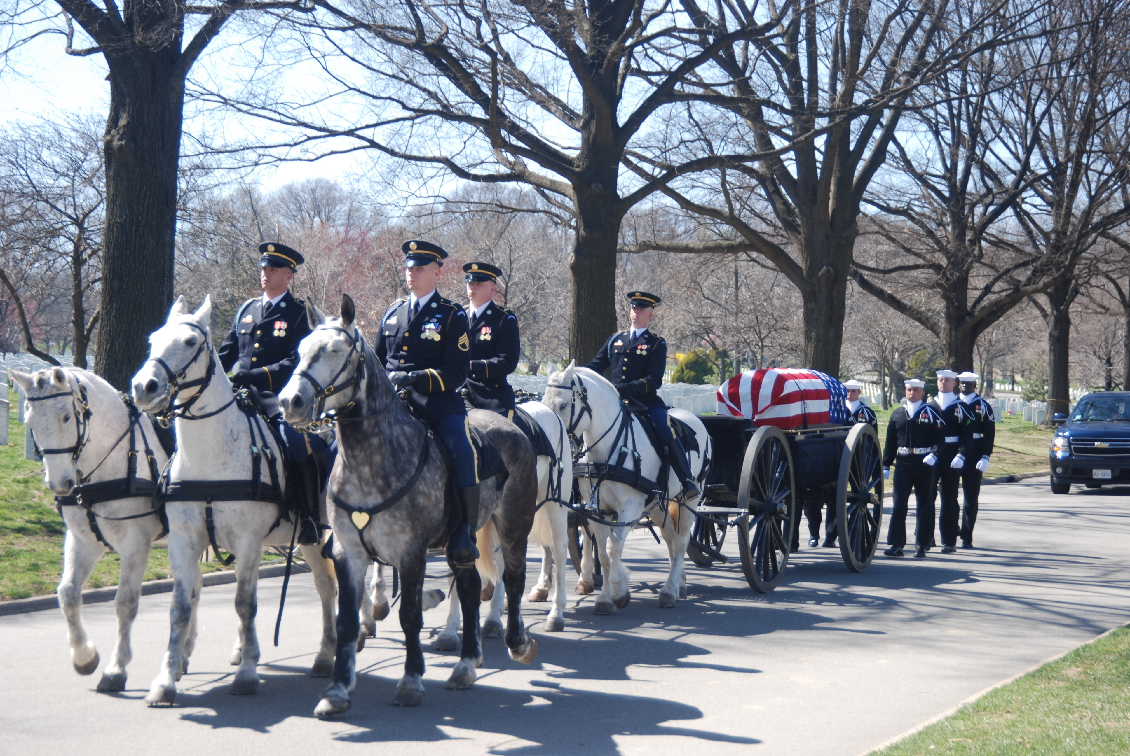 An Army Old Guard escort platoon leads a horse drawn caisson carrying the remains of Navy Pilot Ensign Robert Tills during his funeral at Arlington National Cemetery. The caisson was followed by members of the U.S. Navy Honor Guard casket team, and Tills' family and relatives. Tills was the first American naval officer killed during the Battle of the Philippines on Dec. 8, 1941. Tills' body was recovered in November 2007 and officially identifies in December 2008. (U.S. Navy photo/Released).